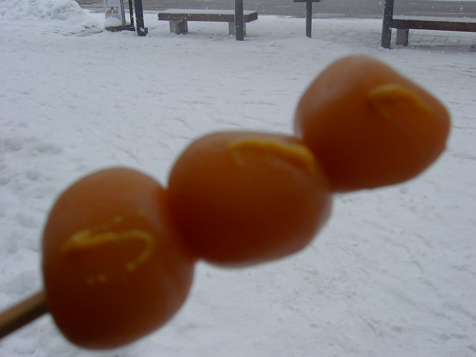 の写真です。 This is a photo of tamakonnnyaku, a Japanese food.